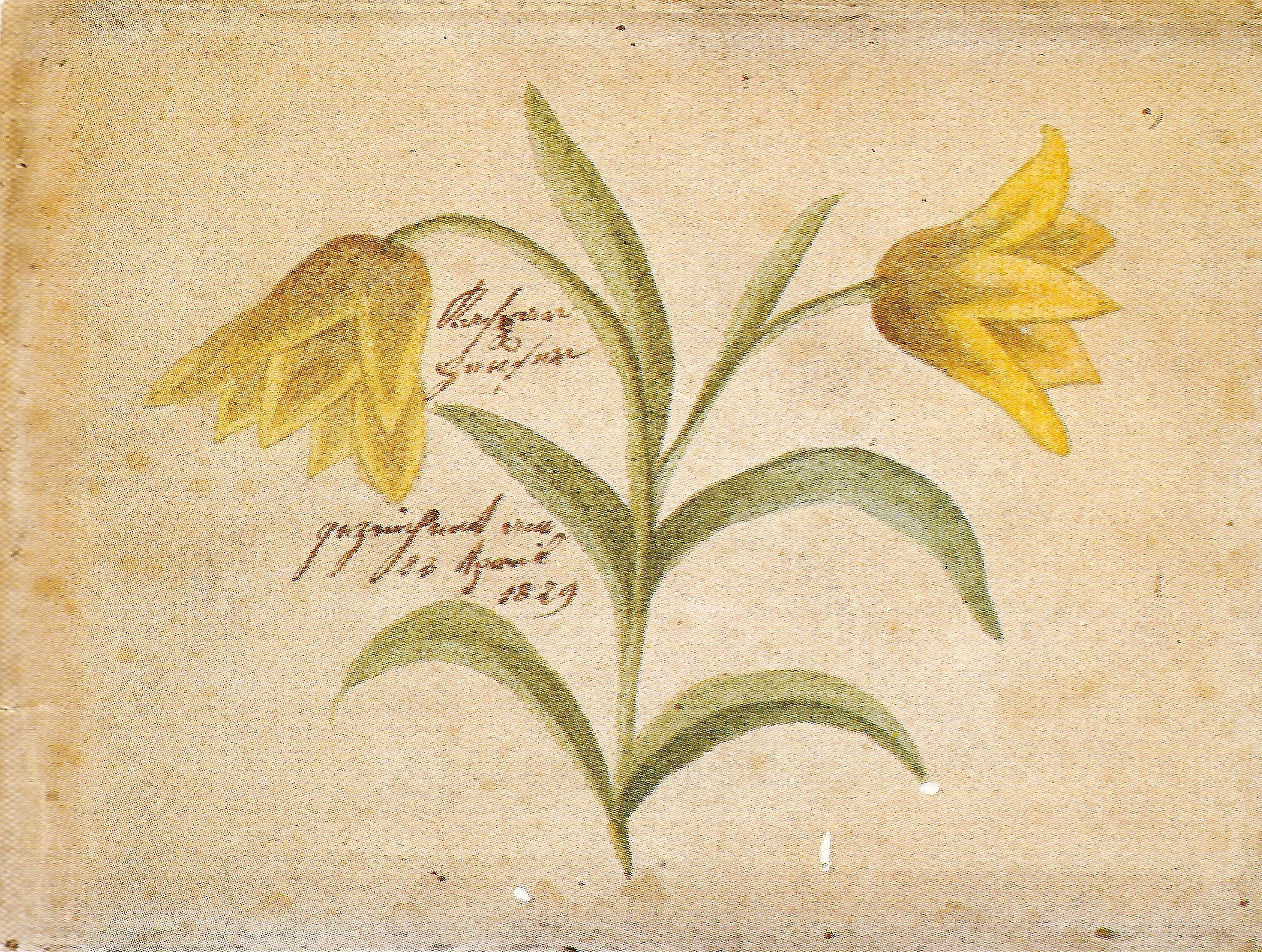 watercolour by Kaspar Hauser